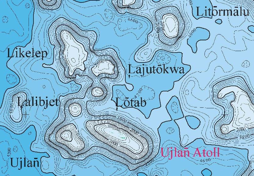 A bathymetric map of seamounts and islands in Micronesia and the Marshall Islands